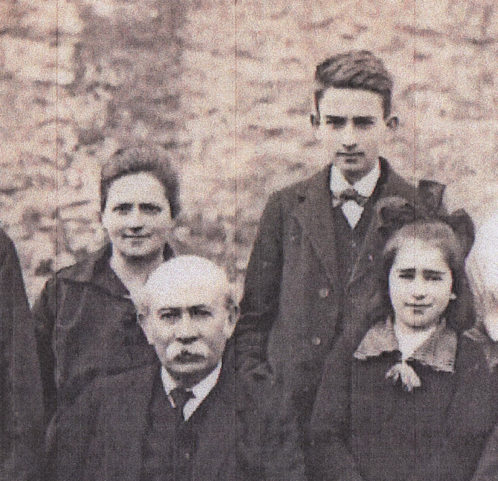 Waldo Williams with his parents and other family members c. 1922. Waldo is 2nd from the right on the top row. his mother is on his right and his father sits in the maidle of the photograph.